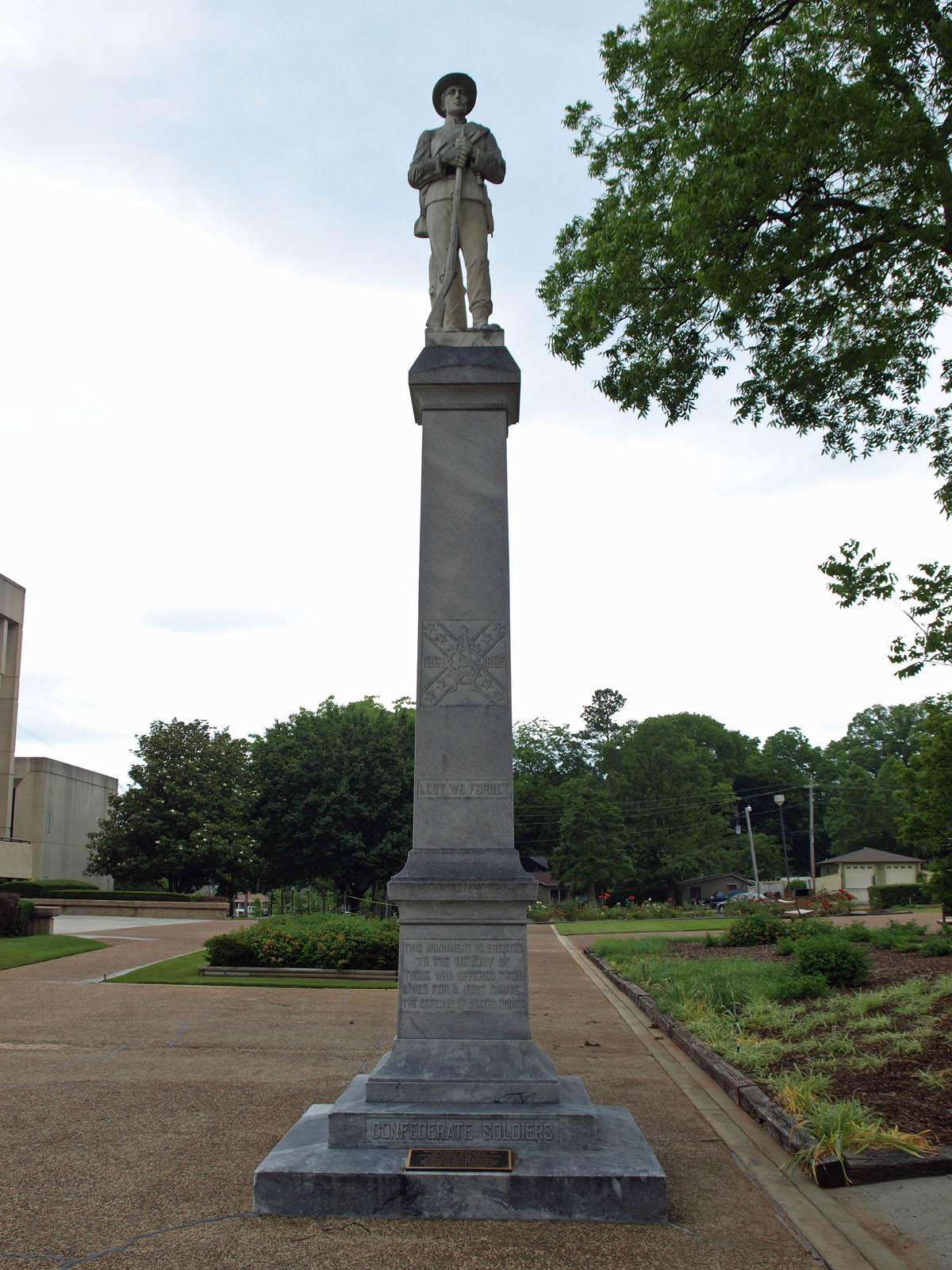 Confederate monument at the Morgan County Courthouse in Decatur, Alabama